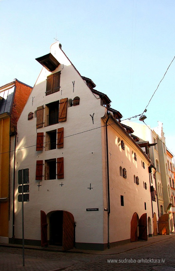 Restoration of 17th century warehouse in Riga, Aldaru street 5. Author: Sudraba arhitektūra and Lienes Griezītes arhitektu birojs.